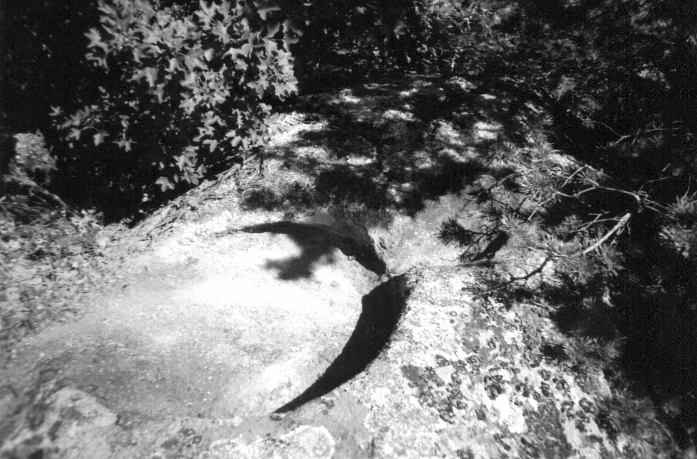 Sharapana Slaveeva skala